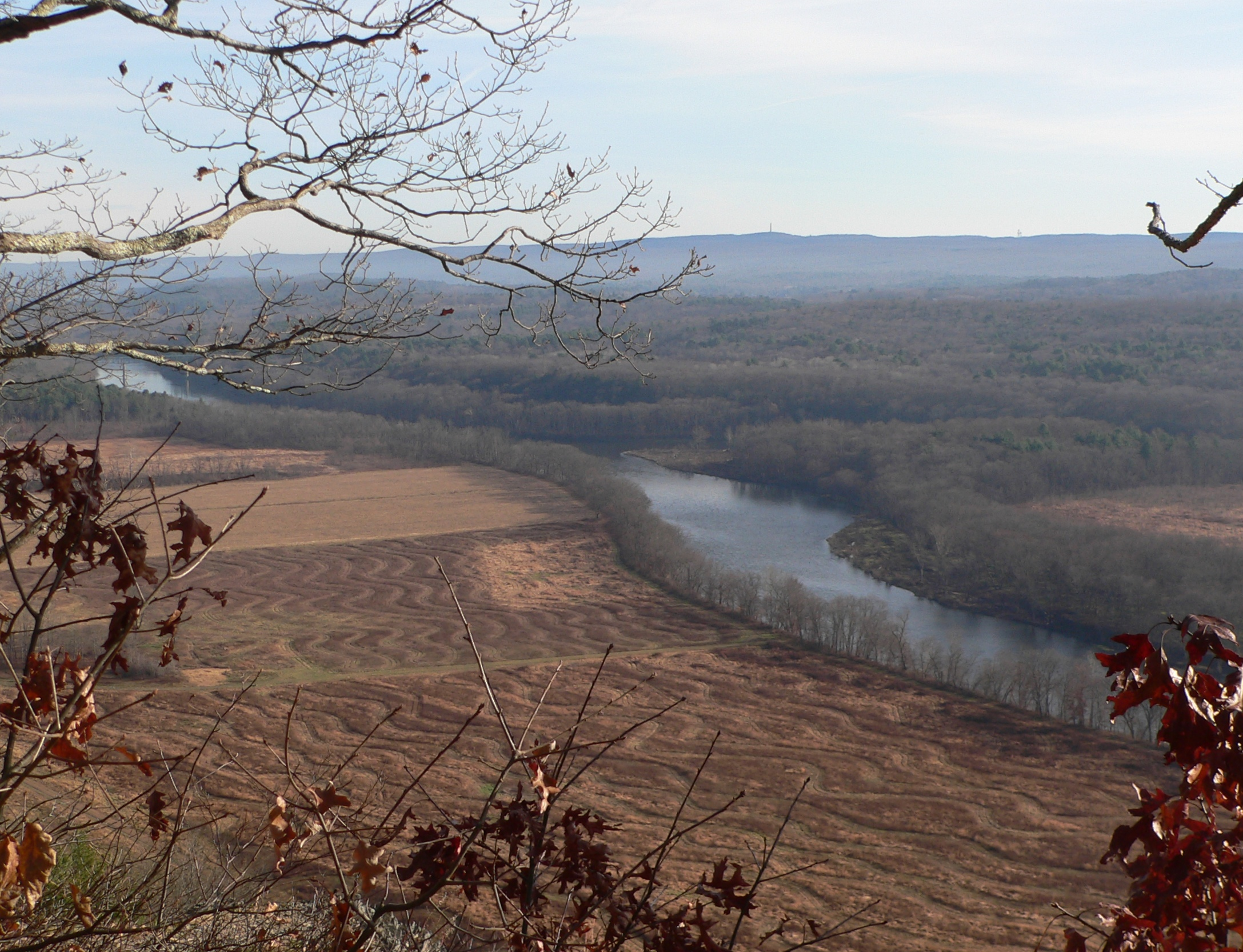 Delaware River valley, seen from the Cliff Trail in Delaware Water Gap National Recreation Area on the west (Pennsylvania) side of the river. Camera is facing generally upstream. In the center of the photo is the upstream end of Minisink Island.